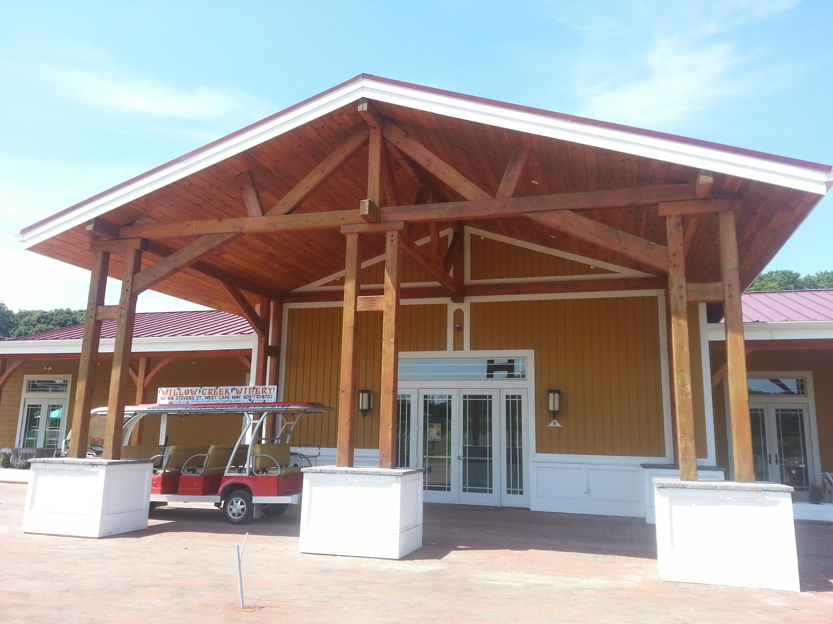 A picture of the tasting facility at Willow Creek Winery in West Cape May, NJ. The 12,000 square foot wooden building was built by Amish workers from Pennsylvania.